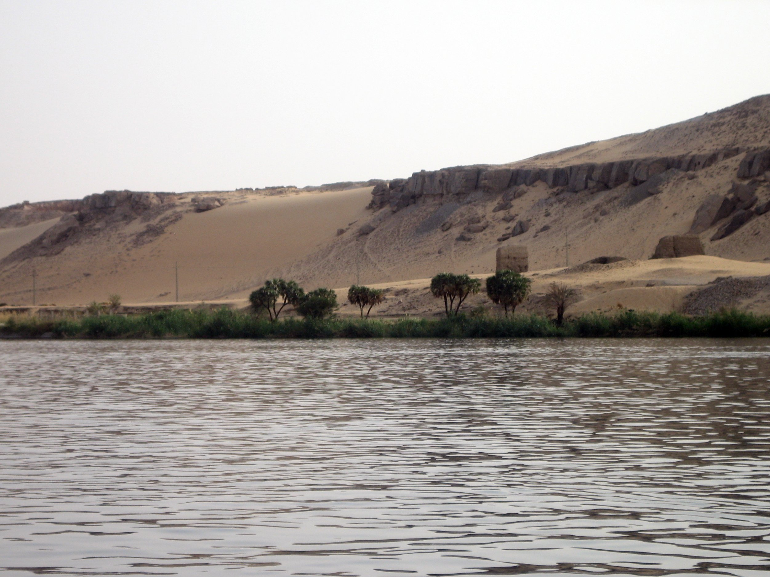 on the Nile